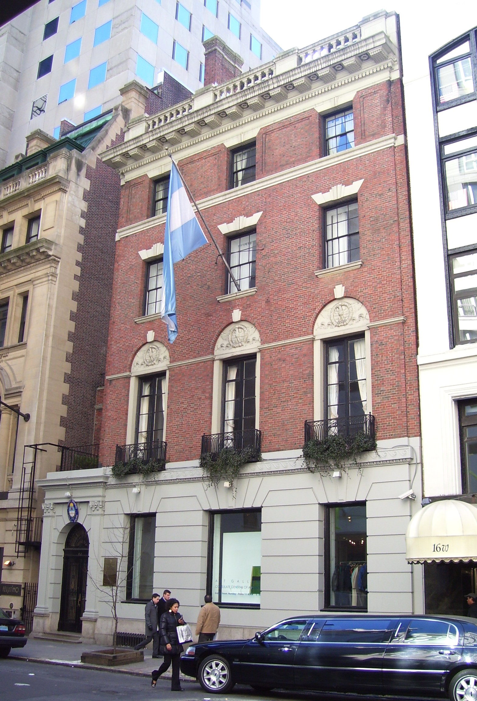 The Henry B. and Evalina Hollins Residence at 12-14 West 56th Street between Fifth Avenue and the Avenue of the Americas (Sixth Avenue) in Midtown Manhattan, New York City, was built in 1899-1901, designed by the firm of McKim, Mead & White in Colonial Revival style. The house was converted into the Calumet Club in 1914, and architect J.E.R. Carpenter made alterations for the club in 1924, removing the central entrance and constructing the wing with porch on the east side of the building (left). The building has been occupied by the Consulate General of Argentina since 1947, and was designated a NYC landmark 1984. (Source: Guide to NYC Landmarks (4th ed.))